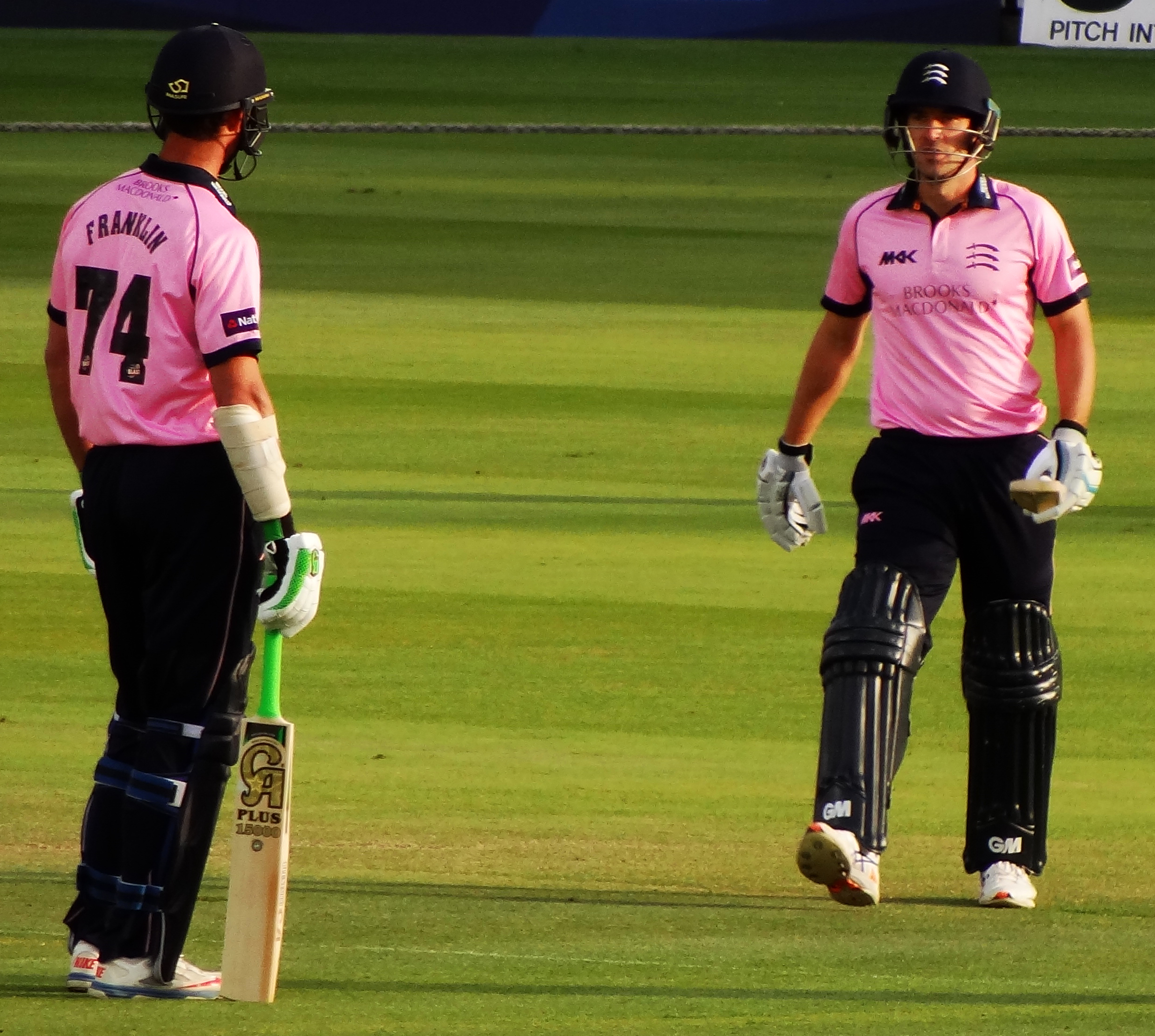 Cricketers James Franklin (left) and Joe Burns (right) meet during a match for Middlesex.